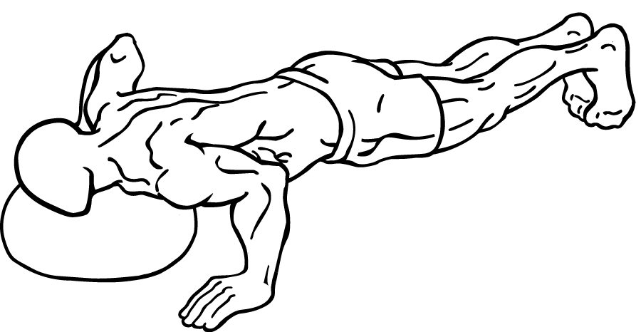 an exercise of chest